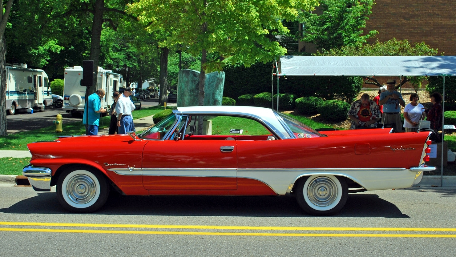 1957 DeSoto Fireflite Sportsman at 2009 National DeSoto Club meet in St. Joseph, Michigan, July 22-26, 2009.